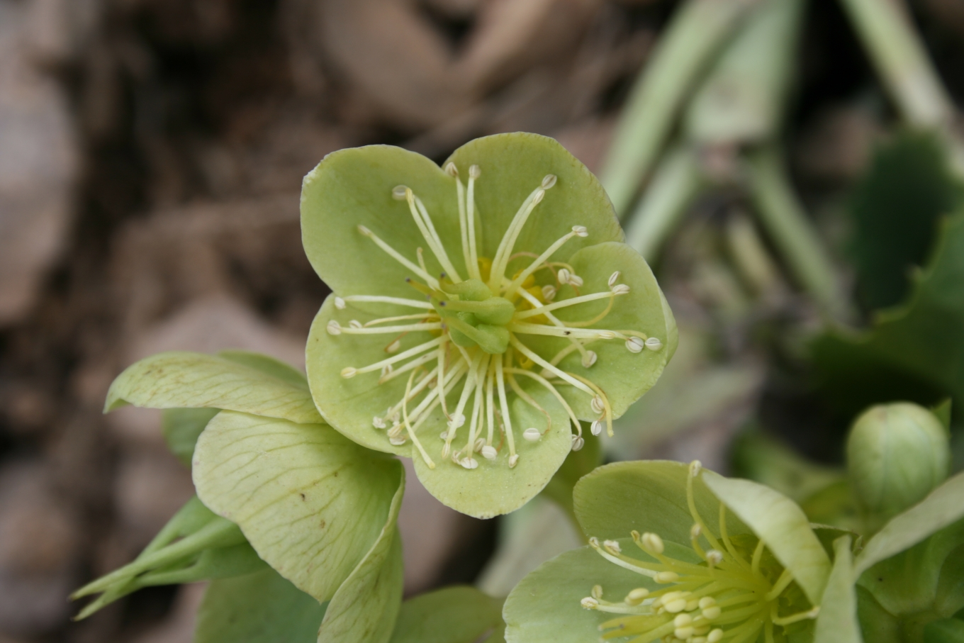 Helleborus lividus subsp. corsicus: Flower.